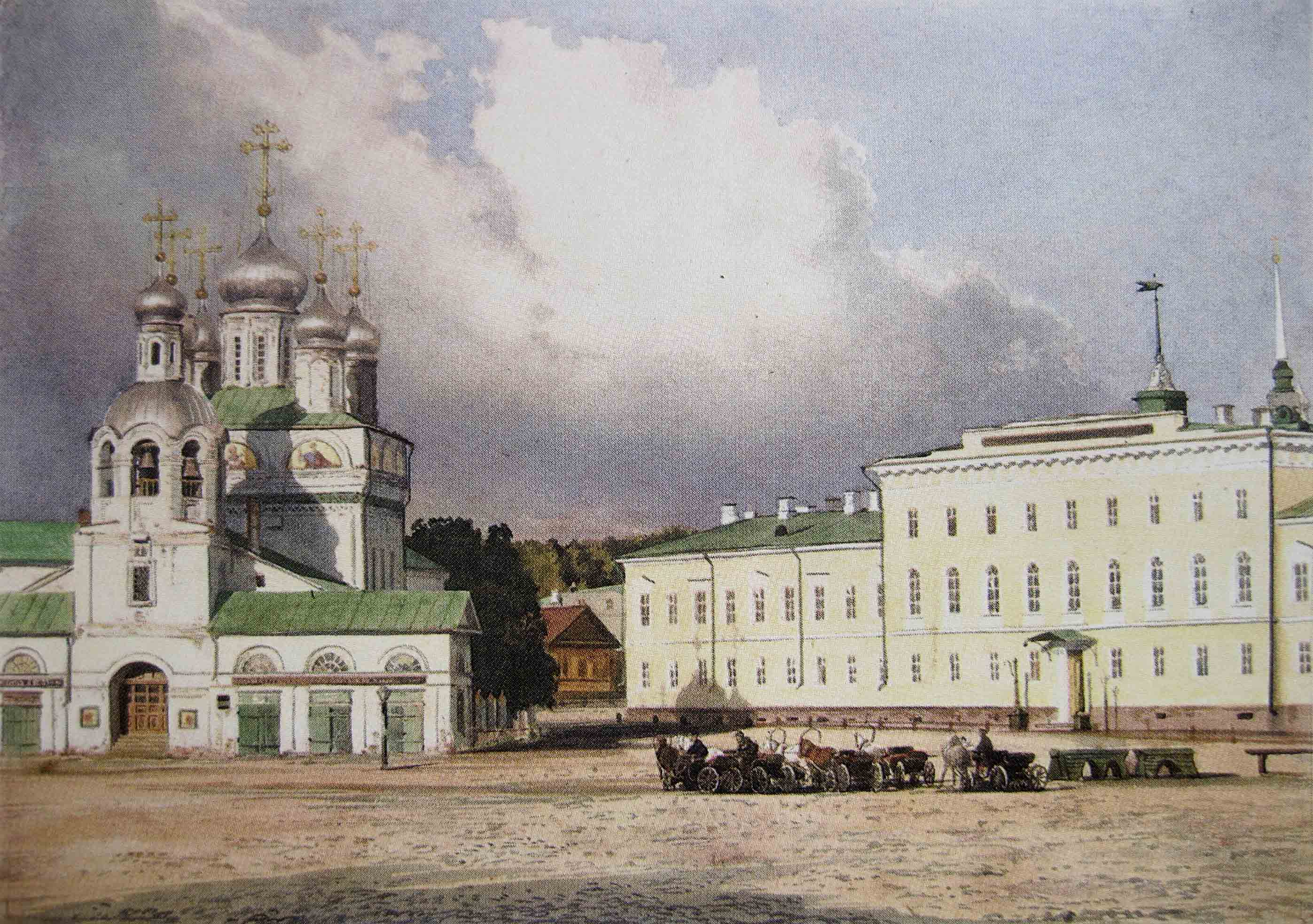 Blagoveschensky (Annunciation) Cathedral and Province Gymnasia on Blagoveschenskaya Square in Nyzhny Novgorod